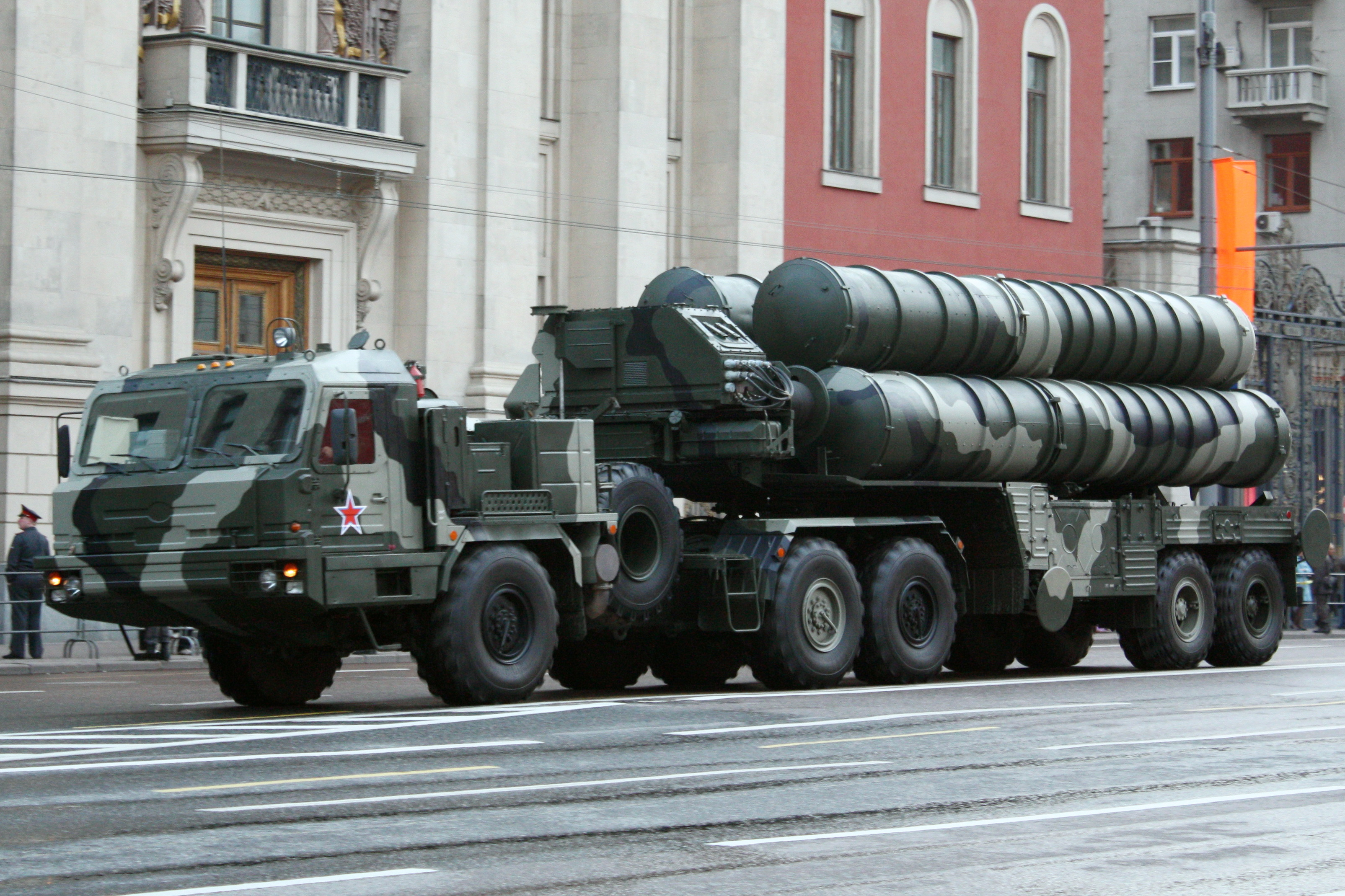 S-400 (SAM) Triumf (SA-21) at a rehearsal of the Victory Parade May 4, 2010